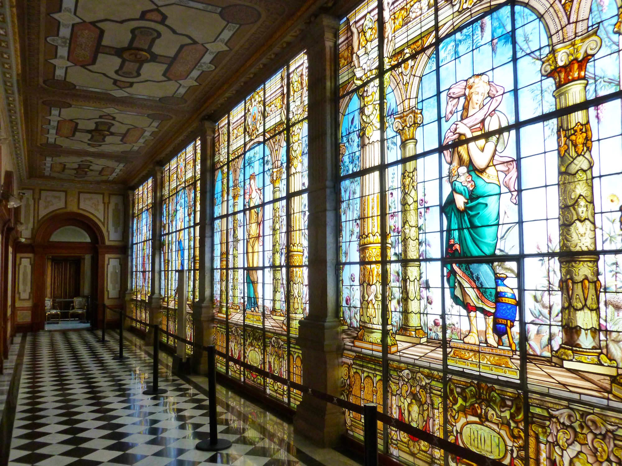 At the Castillo de Chapultepec (Chapultepec Castle), Mexico City